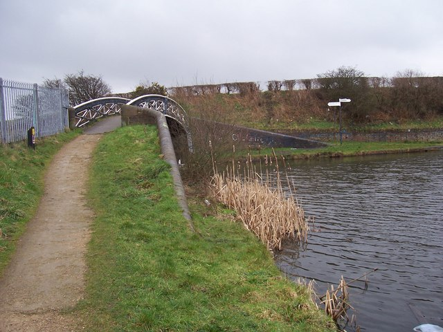 Anglesey Basin Bridge - Wyrley & Essington Canal, Anglesey Branch Boats pass under this bridge to access the basin on the left. The bridge allowed horses to continue pulling boats whilst crossing to the towpath on the far side.